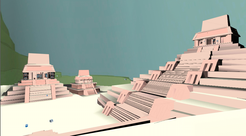 Reconstruction of the Temples of the Cross Group